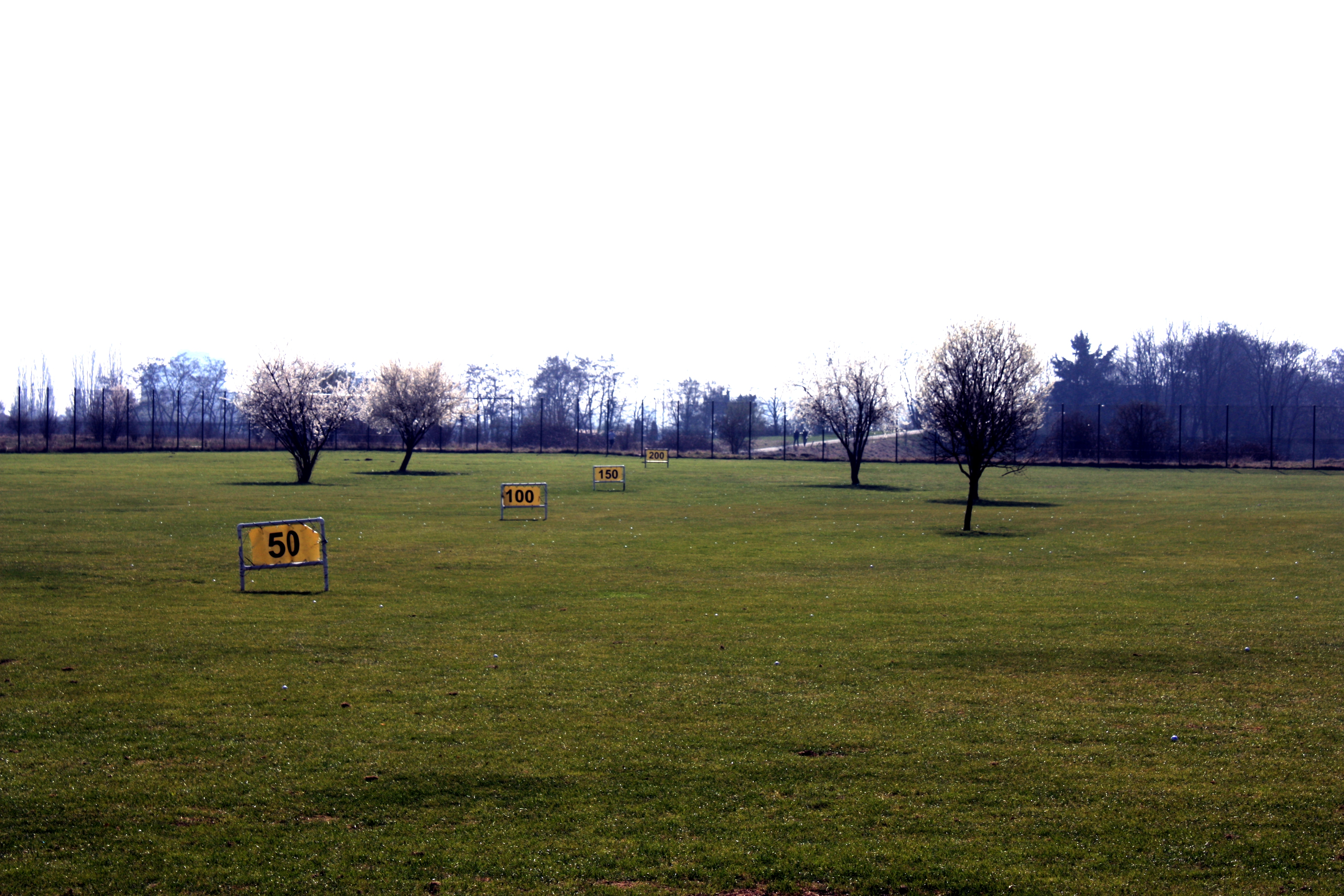 Picture taken at the opening of the driving range at march 25th 2012.